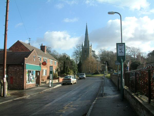 Barkston, Lincolnshire, England. Post office and church.